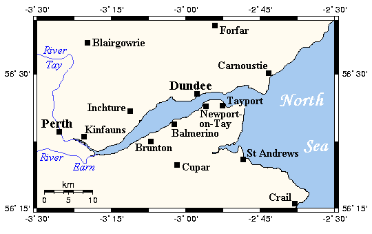 A map of the Firth of Tay in Scotland, and surrounding areas. This map's source is here, with the uploader's modifications, and the GMT homepage says that the tools are released under the GNU General Public License.